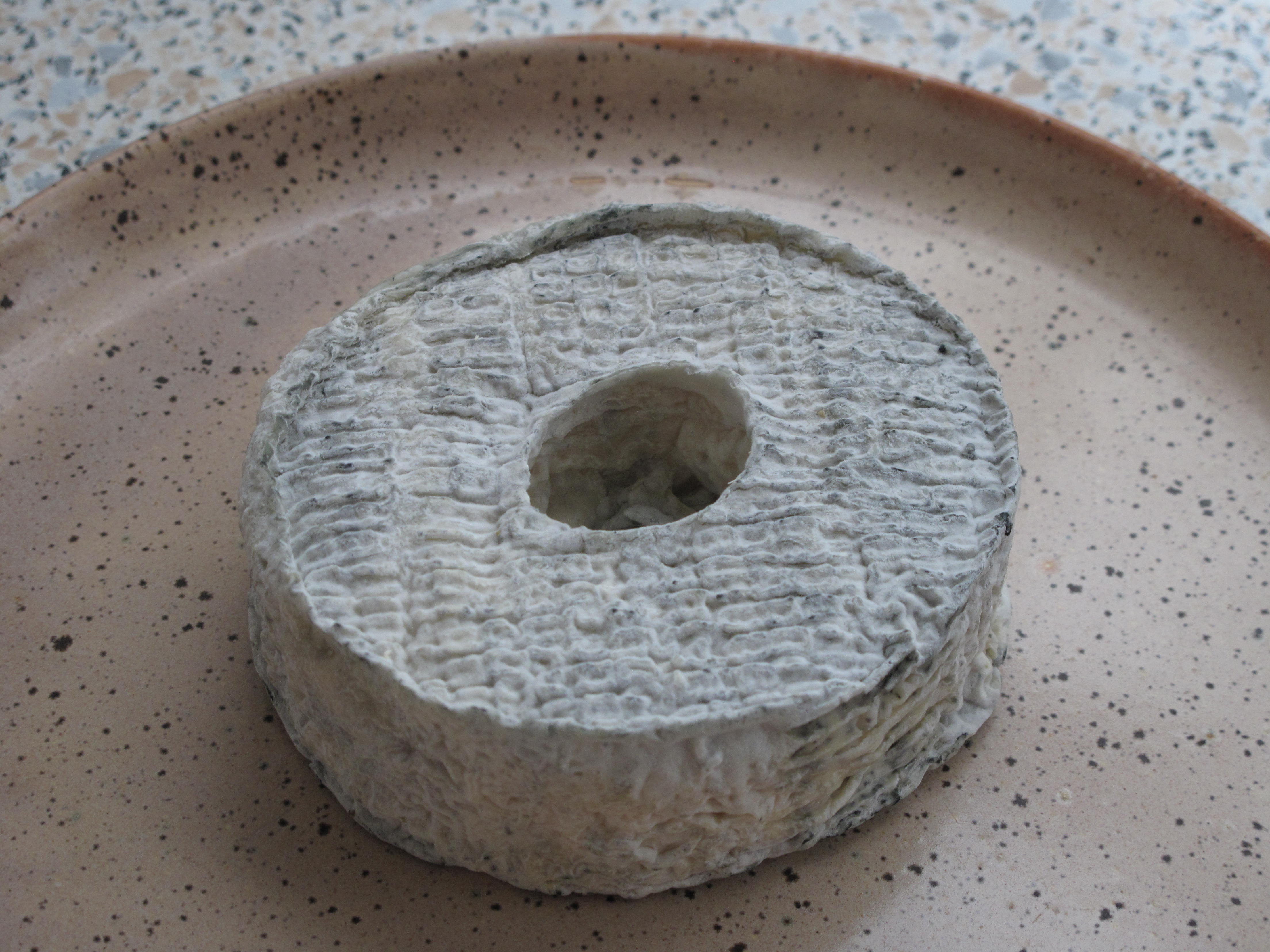 French goat's cheese "Rouelle du Tarn", made in the department of Tarn, SW France. Diameter : 9.5 cm